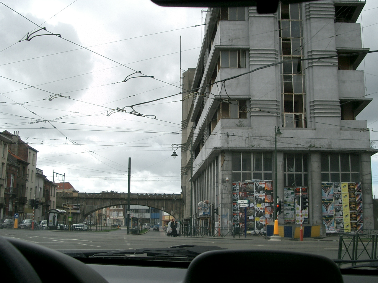 Former Wielemans-Ceuppens brewery, Forest, Belgium, now refurbished as the Wiels art centre. The work of the architect Adrien Blomme (1878-1940).